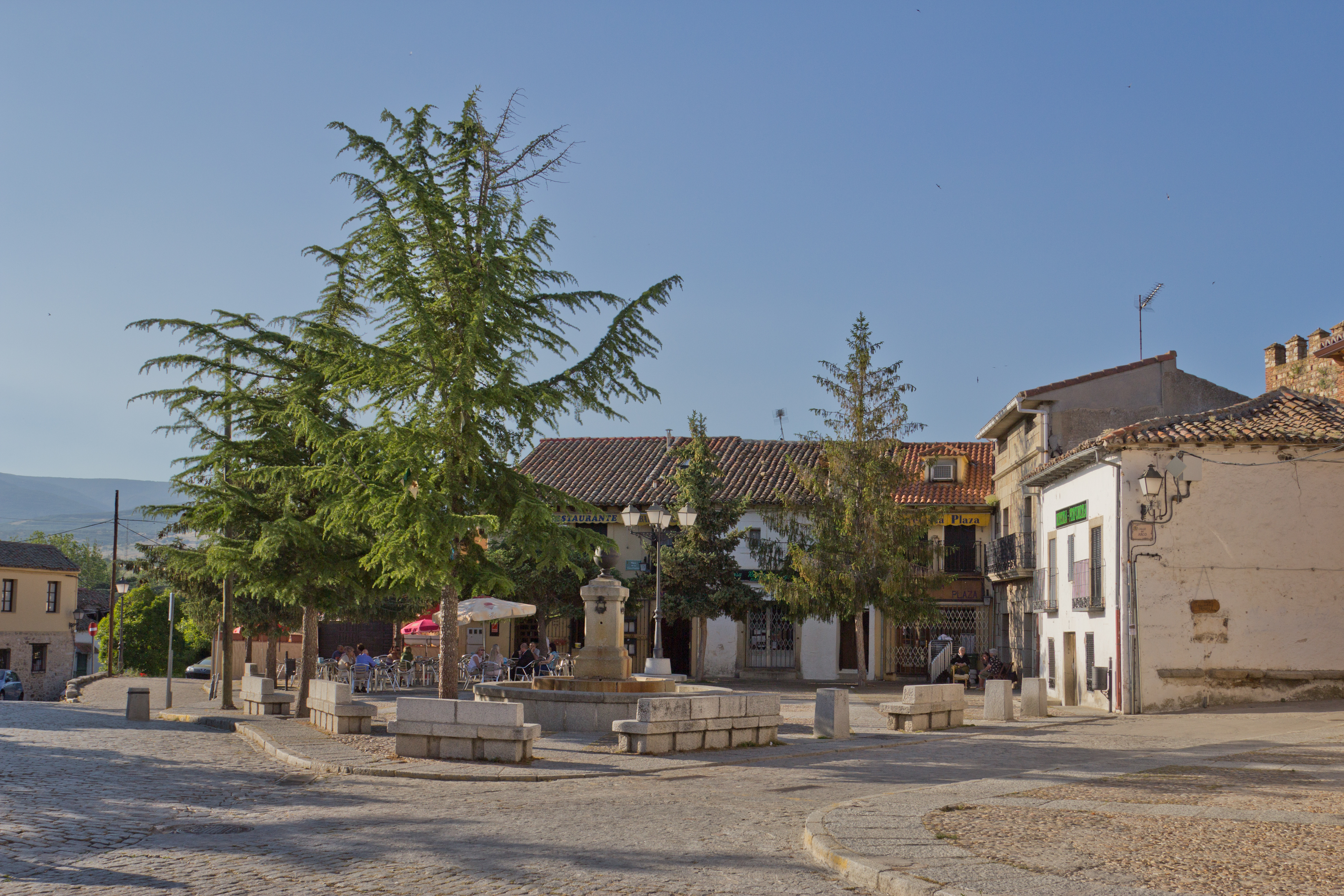 Plaza de la Constitución (Constitution Sq.), Buitrago del Lozoya, Community of Madrid, Spain.